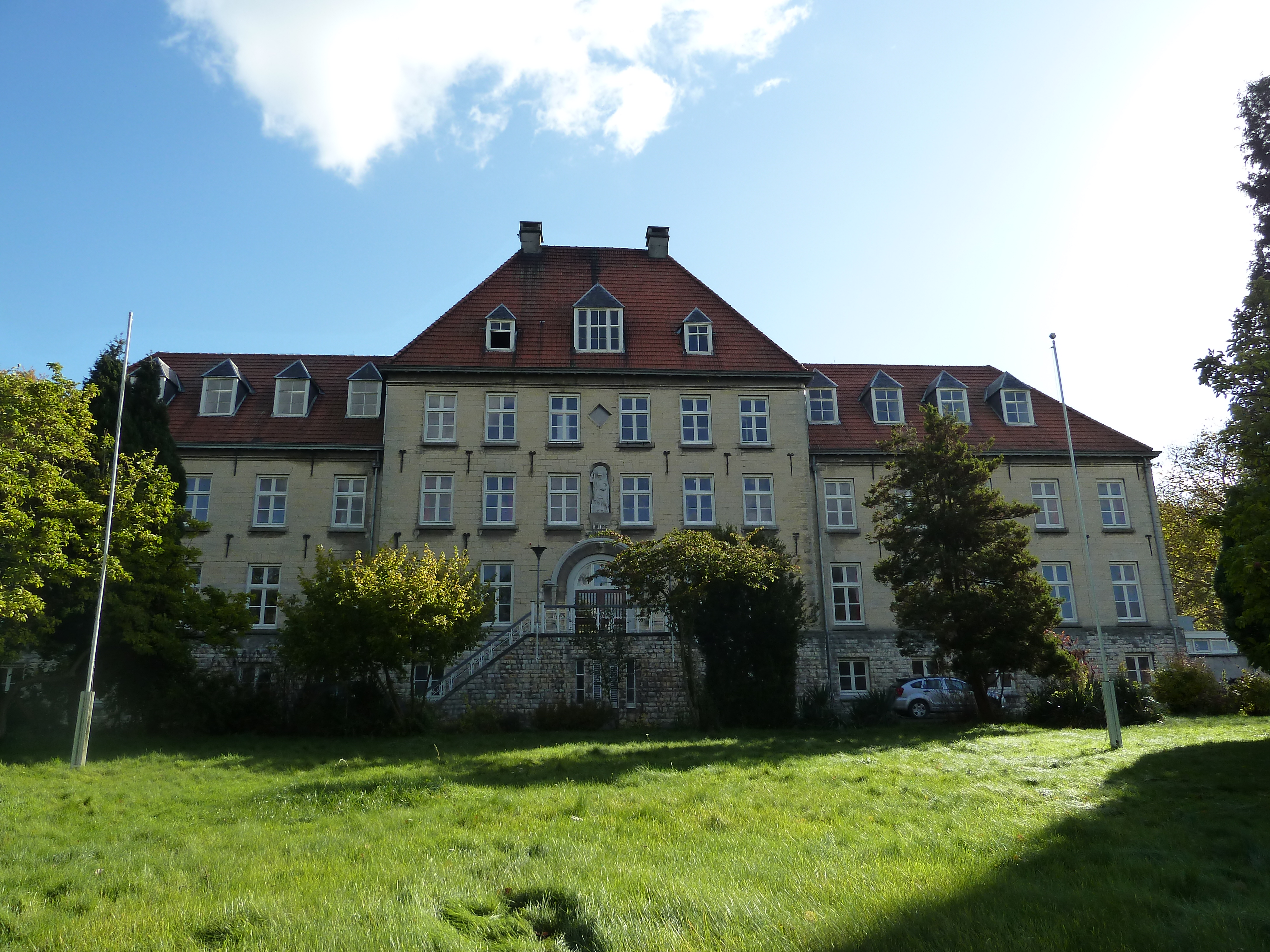 Sint Gerlach, Pater Kustersweg 24, Cadier en Keer, Limburg, the Netherlands